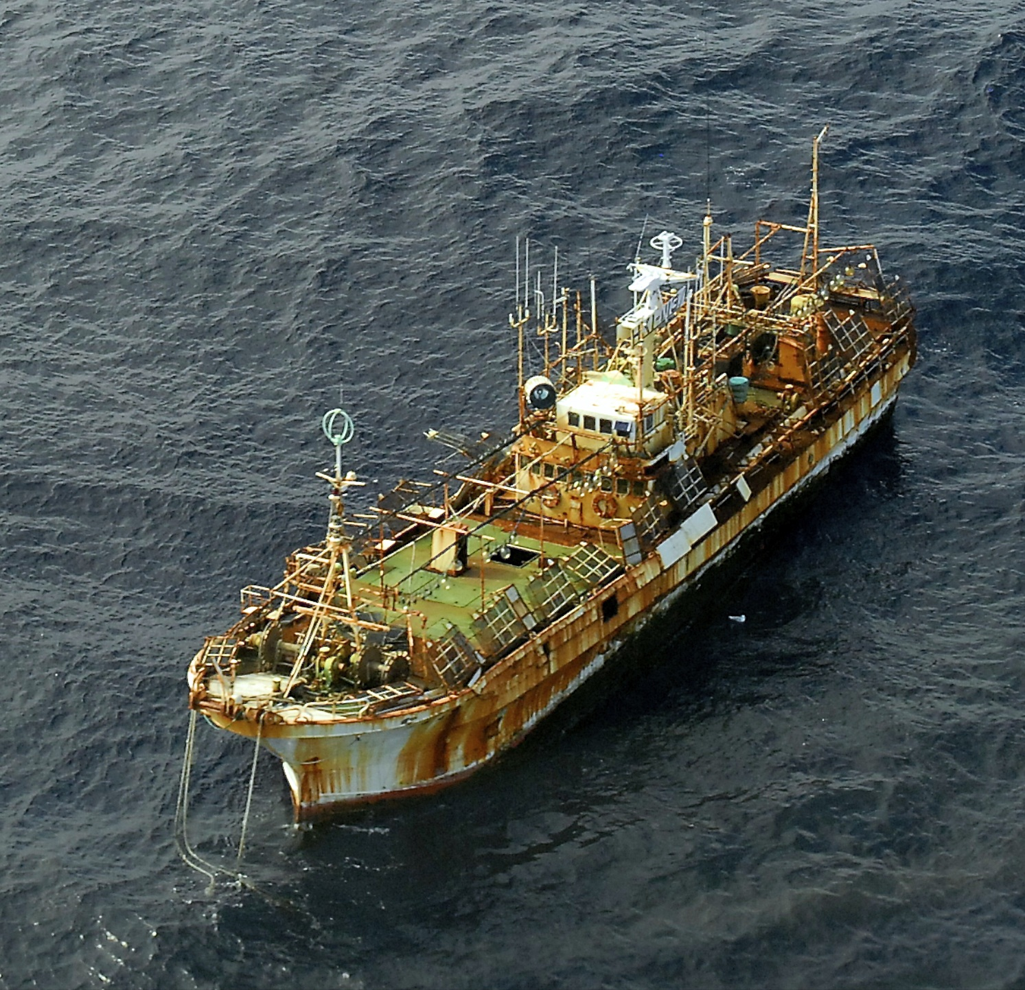 GULF OF ALASKA - The unmanned Japanese fishing vessel Ryou-Un Maru drifts northwest approximately 170 nautical miles southwest of Sitka April 4, 2012. The Coast Guard is monitoring the vessel, which is currently considered a hazard to navigation, and working with stakeholders to determine the best way to respond to the vessel's presence in U.S. waters. U.S. Coast Guard photo by Petty Officer 1st Class Sara Francis.